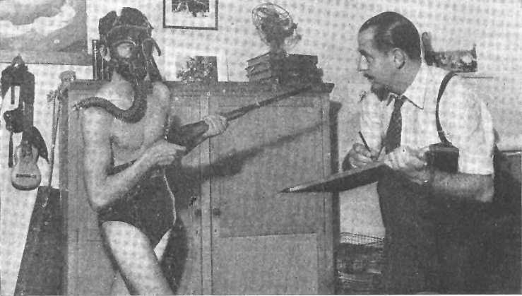 Alberto Breccia uses an art model to represent a scene.